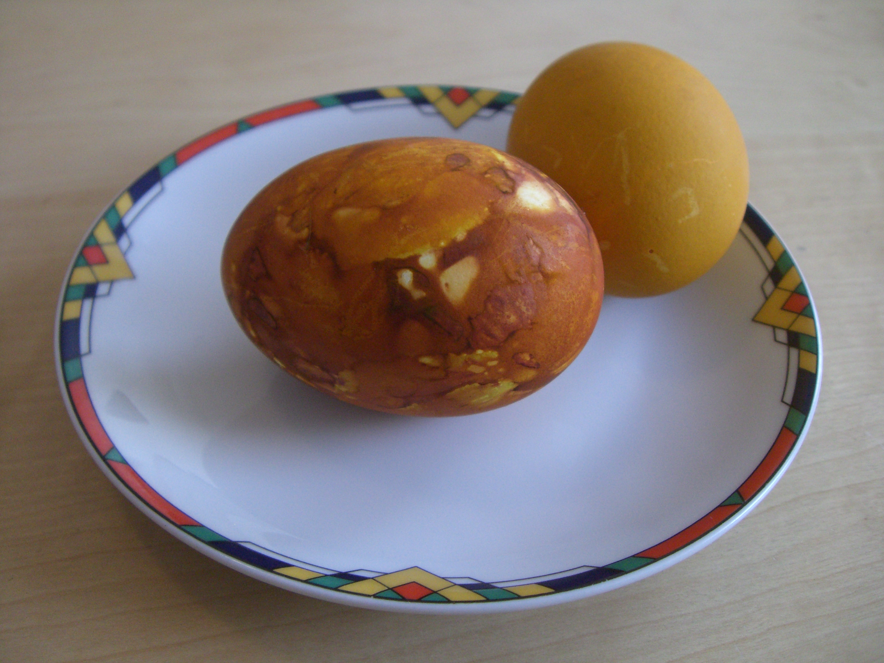 Fox-Egg - traditional easter egg from the German regions Hanover, Westphalia and Rhineland, coloured with boiled onion skins